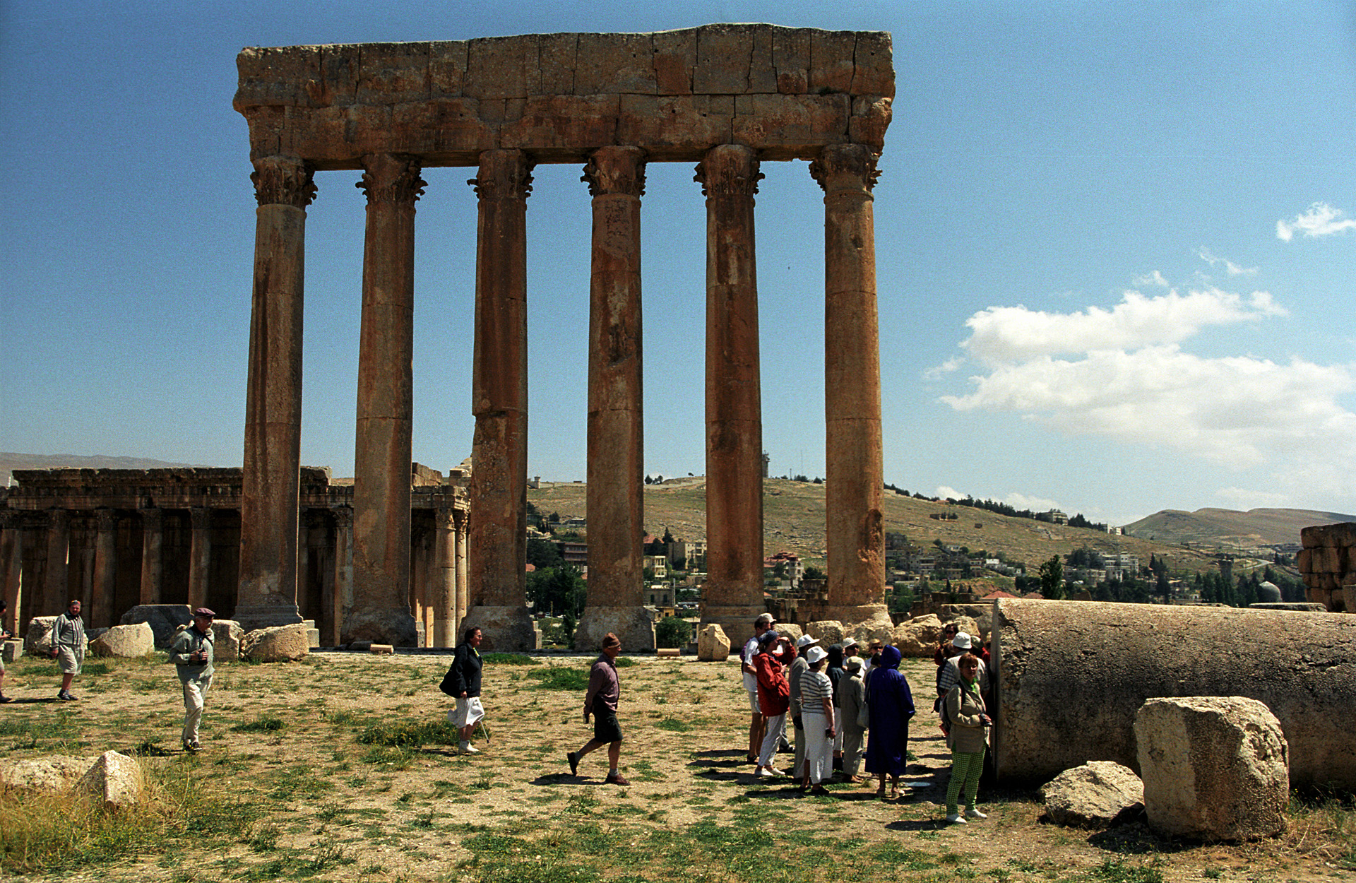 Baalbek, Temple of Jupiter